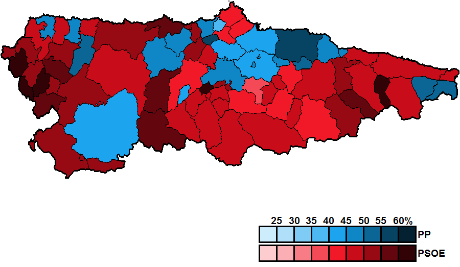 Most-voted party in Asturias municipalities, showing vote share obtained, in the Spanish general election, 1996.